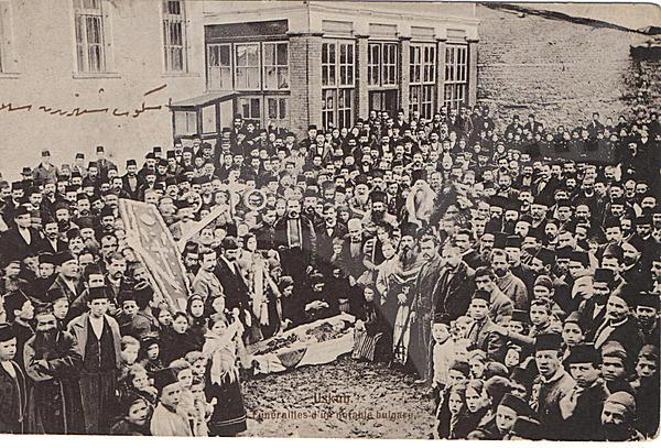 Funeral of a Bulgarian in Skopje